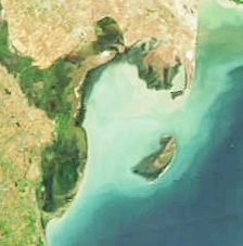 Ghizil-Agaj Bay